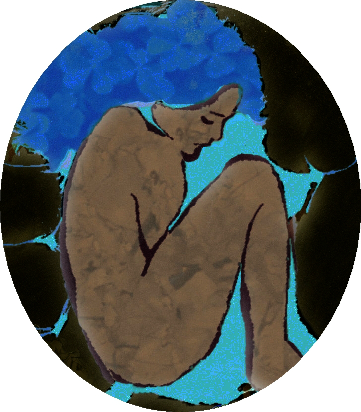 An artistic interpretation of the mother goddess Varima-te-takere, in her womb-like domain in the depths of Avaiki, the underworld.